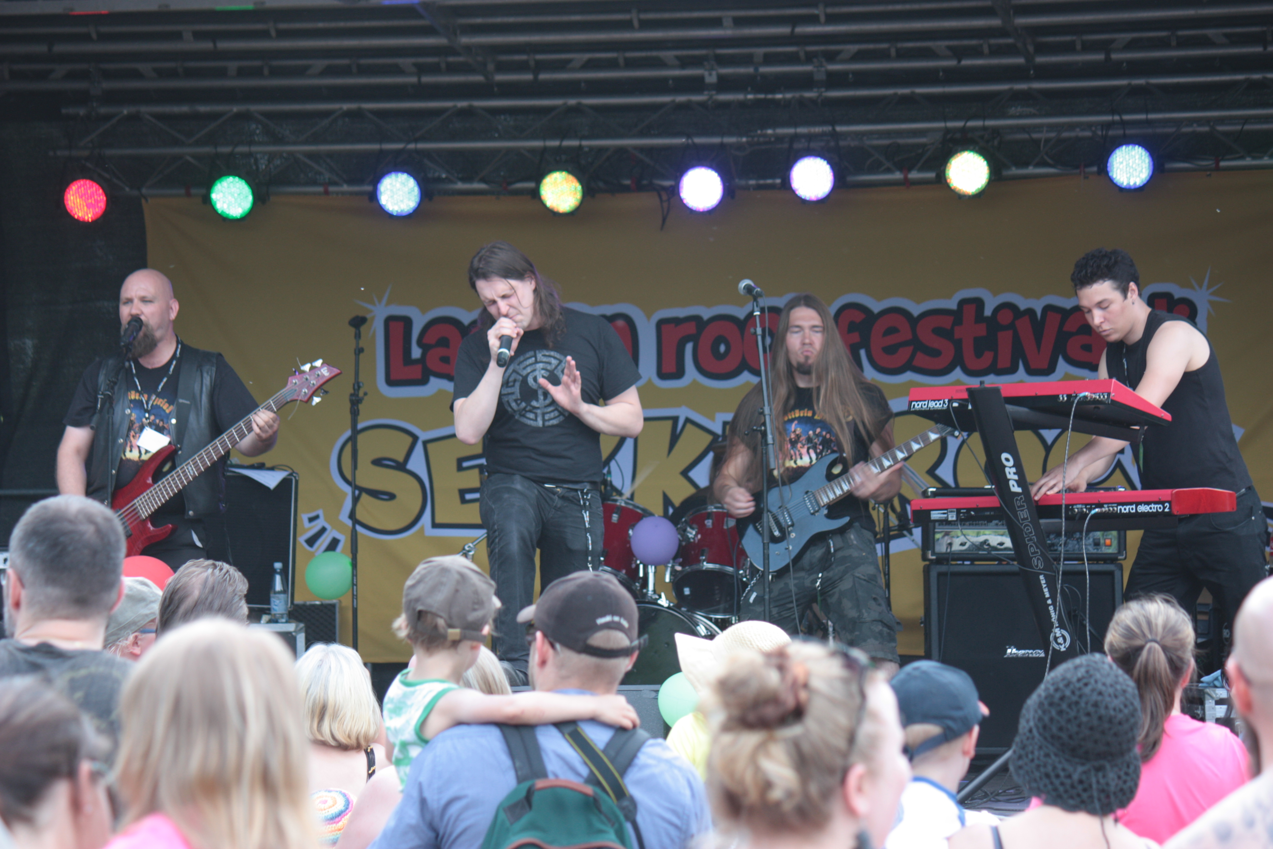 The children's heavy metal band Moottörin Jyrinä performing in Seikkisrock festival in Seikkailupuisto park, Turku, Finland